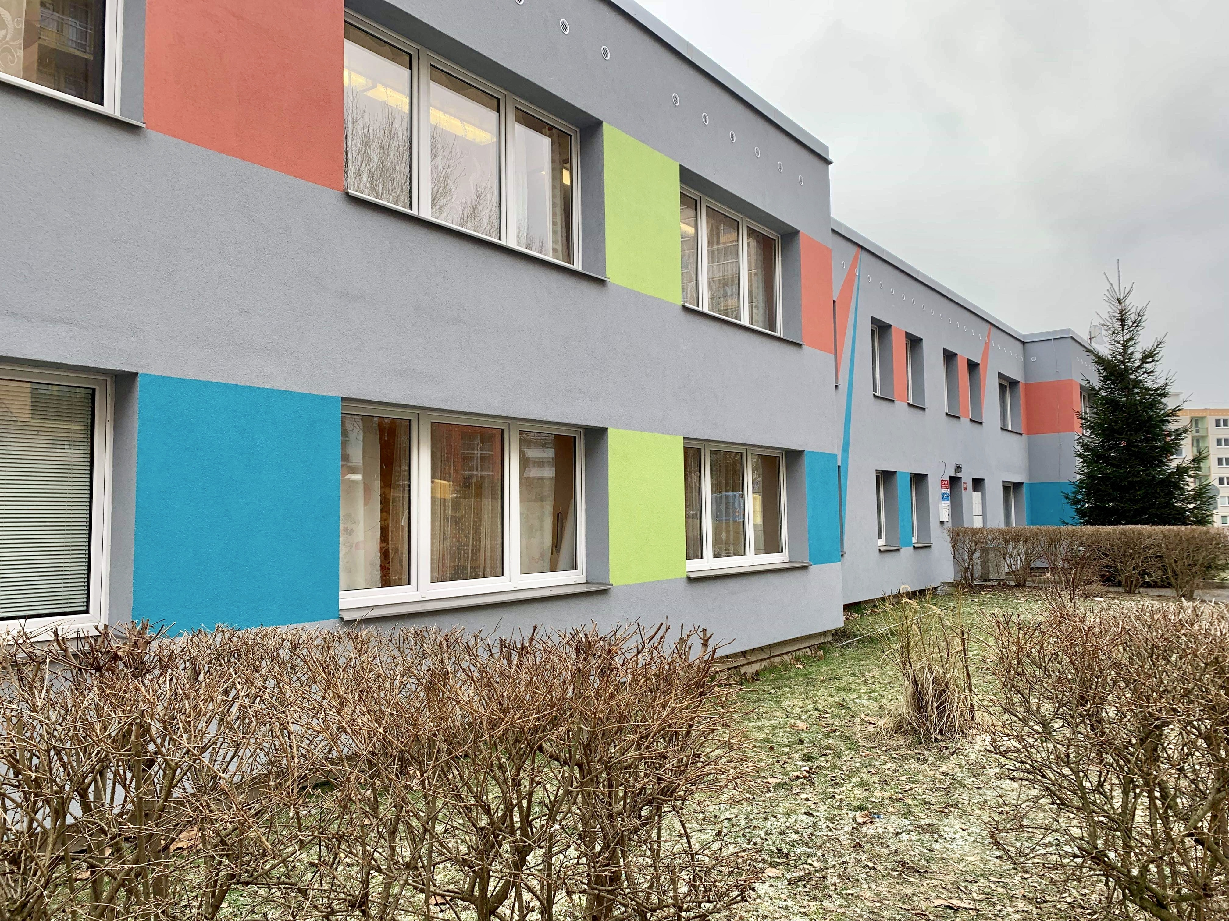 High school SPoSŠ